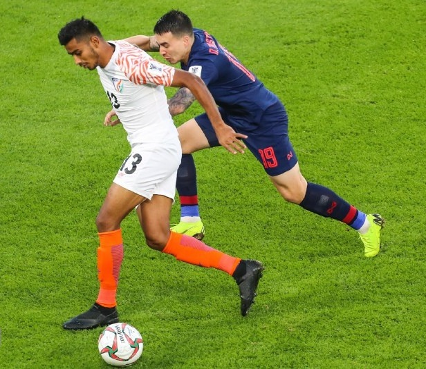 Ashique Kuruniyan in action at THAvsIND AFC Asian Cup group match